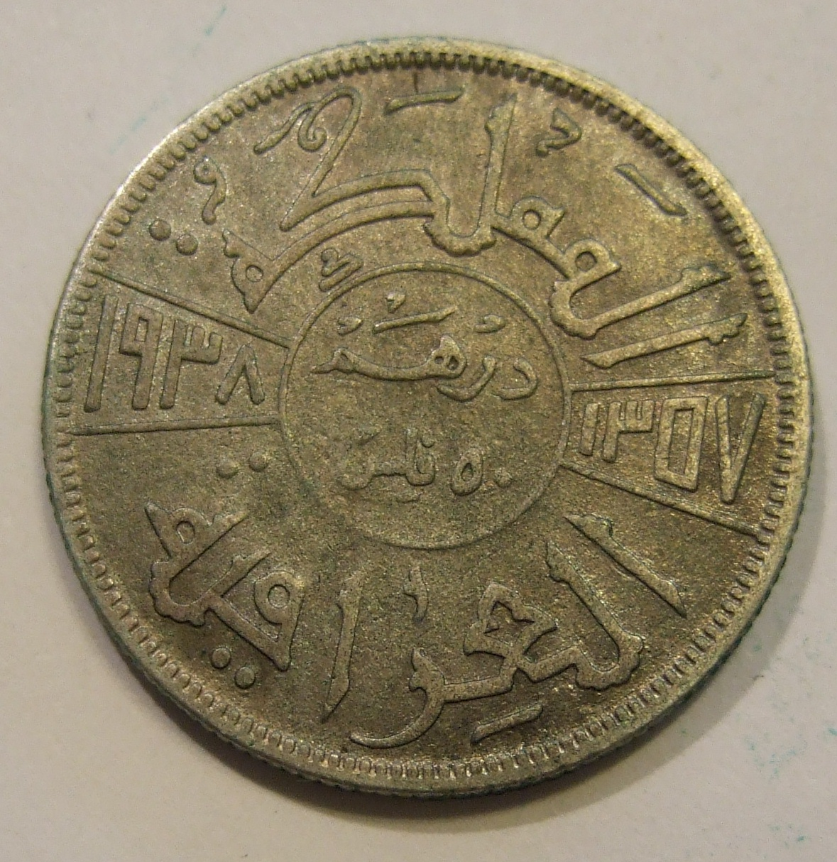 A 1938 Iraq 50 Fils coin, Ghazi I. It is 50% silver.